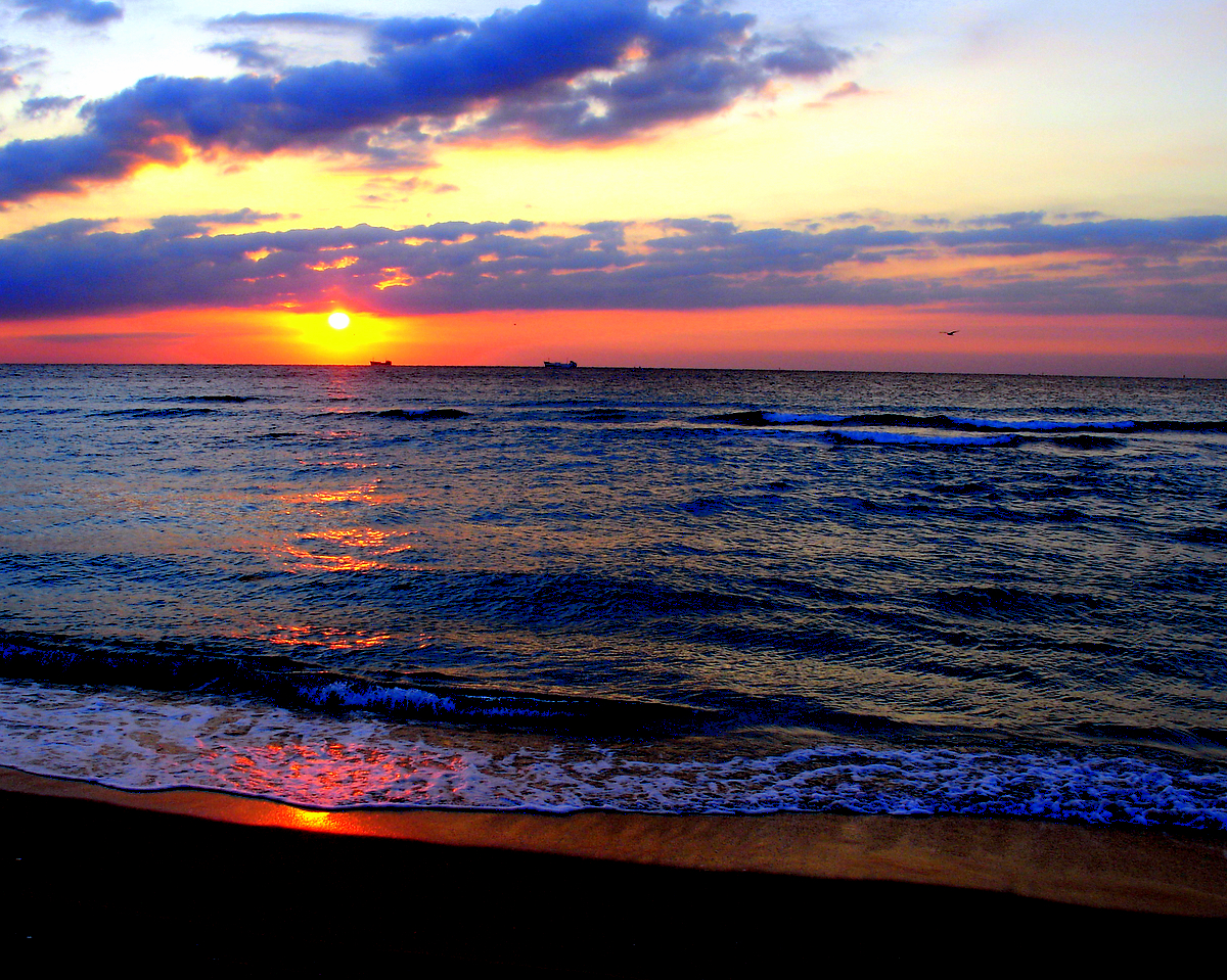 Easter Sunrise from South Beach